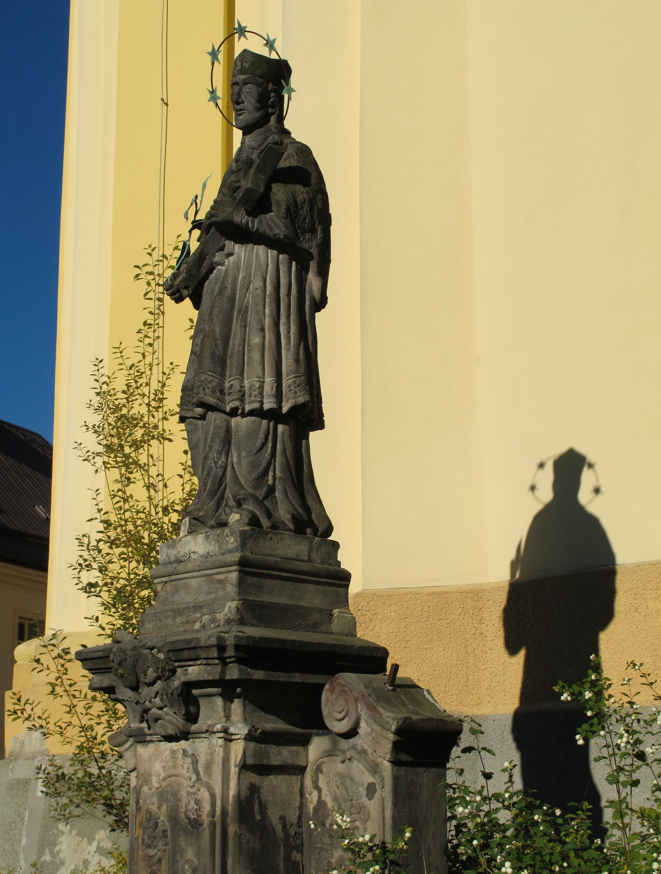 Janov nad Nisou in Jablonec nad Nisou District, Czech Republic